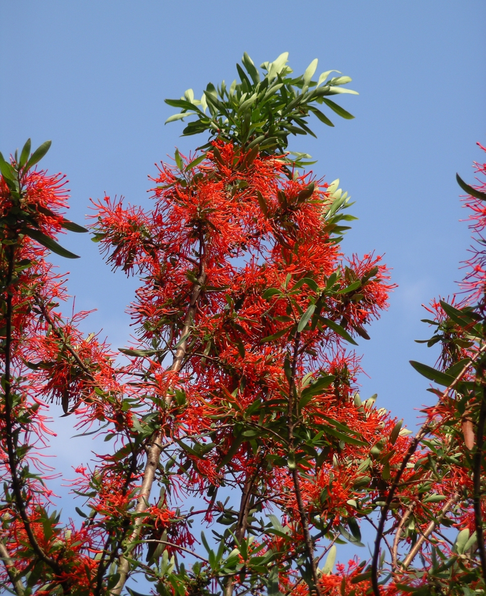 Embothrium tree in flower